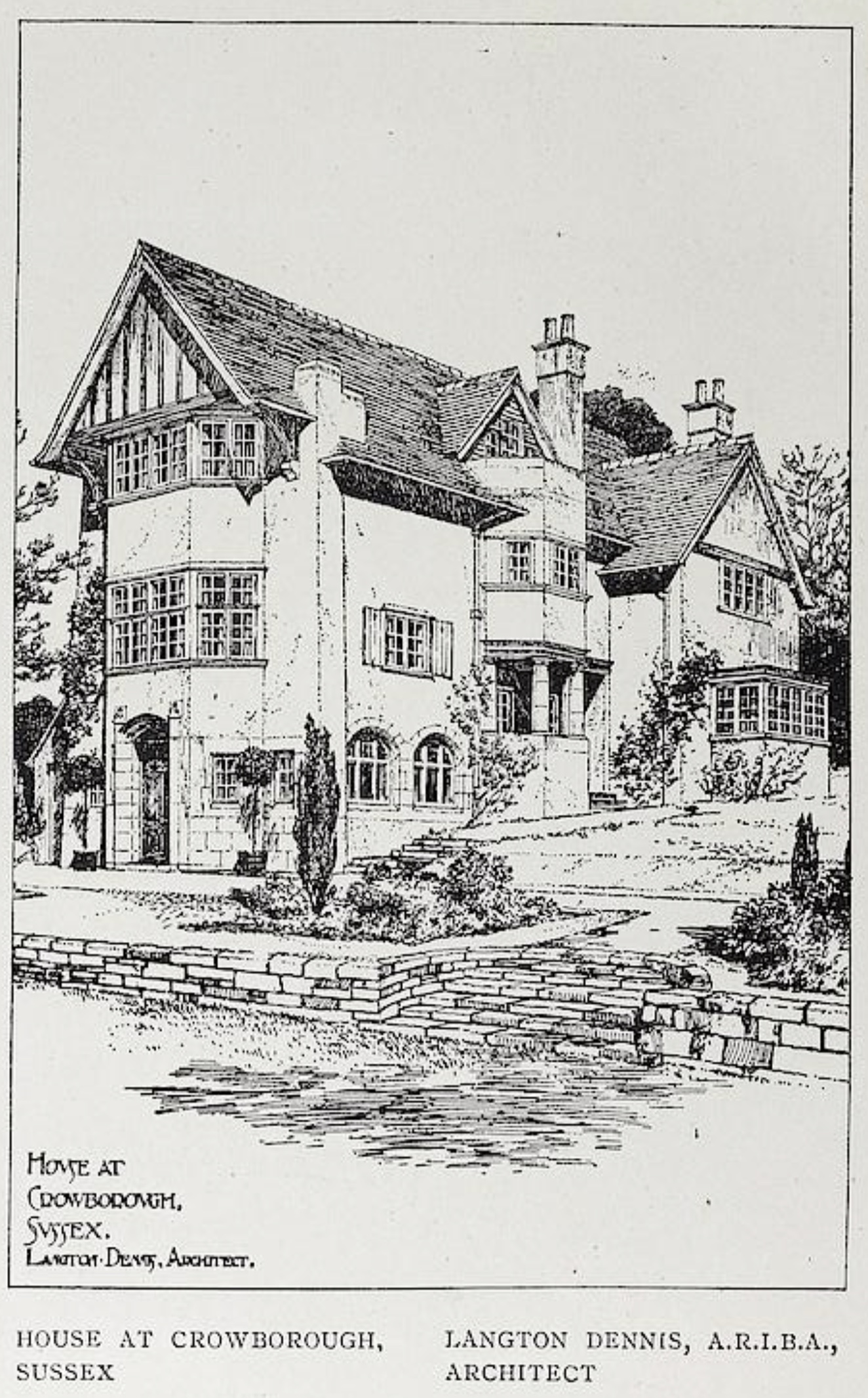 House at Crowborough, Sussex by Langton Dennis, Architect from the Studio Yearbook 1907